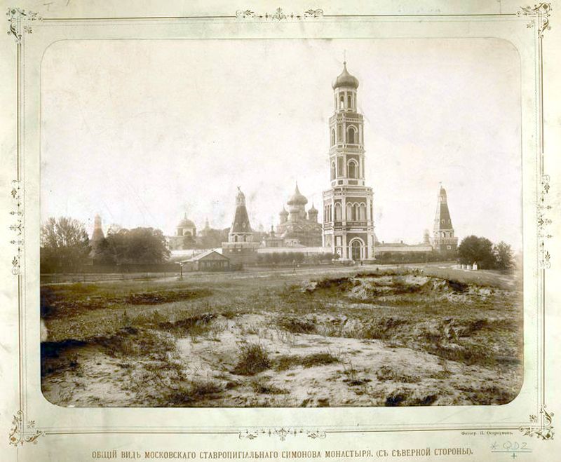 Simonov Monastery (Симонов монастырь) in Moscow)